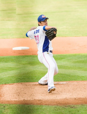 Ying-Chieh Lin,he is baseball plaayer of Taiwan.